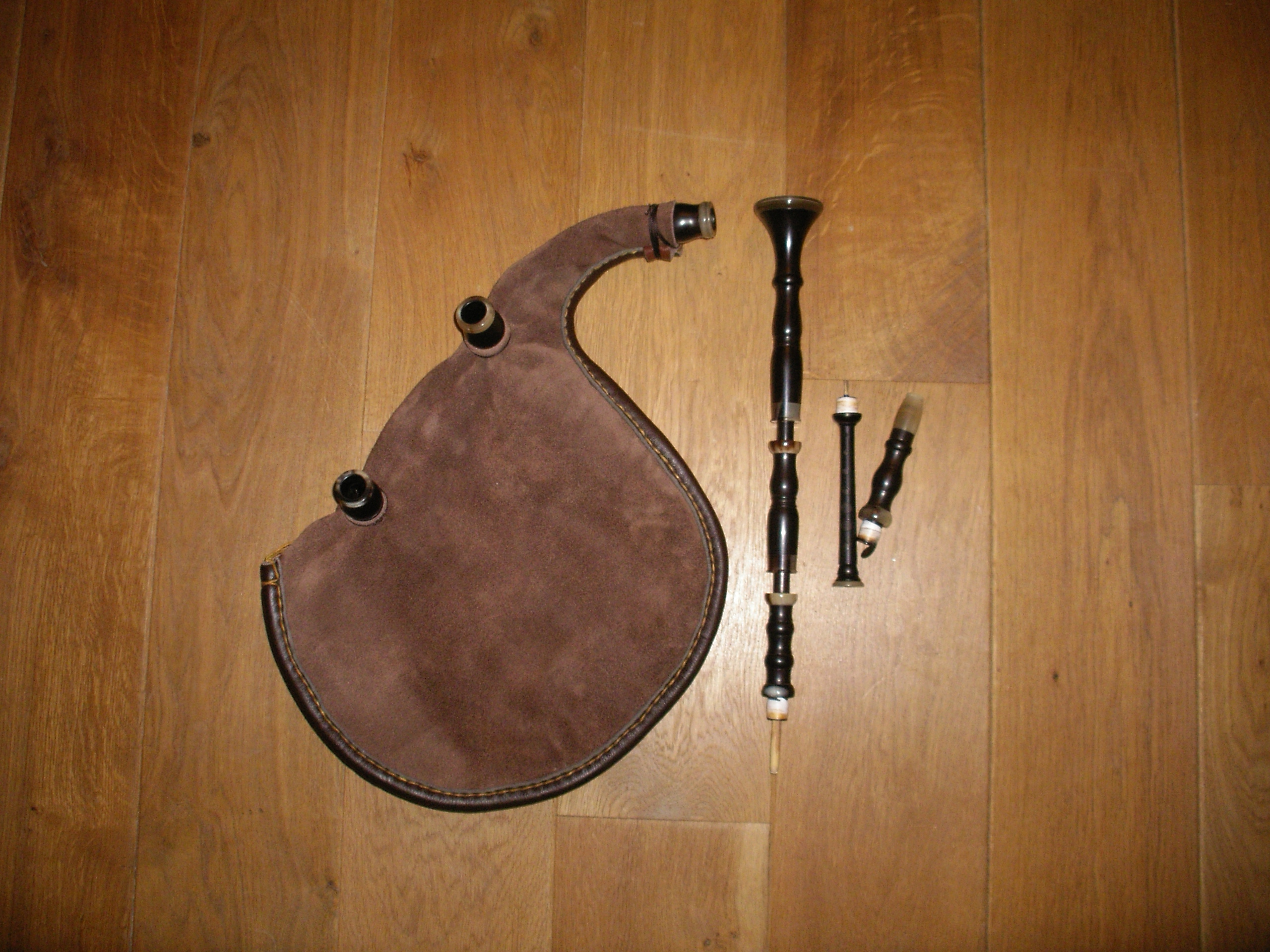 A typical "Biniou Kozh" in four parts, instrument from Brittany (FRANCE) Made by Jorj Bothua.